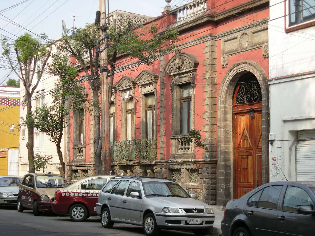 Old mansion on Velazquez de Leon Street in Colonia San Rafael, Mexico City